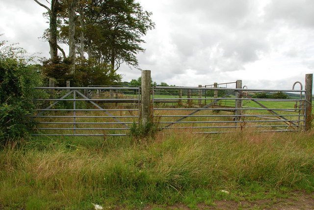 Livestock Pen Close to Harbourneford Cross.